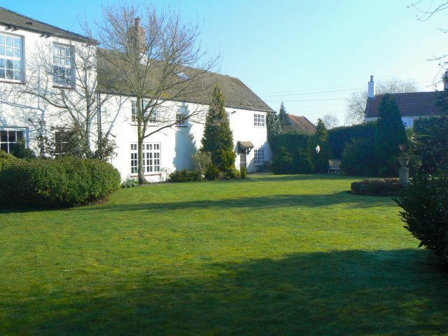 The old vicarage at Kellington, N. Yorks., now demolished!